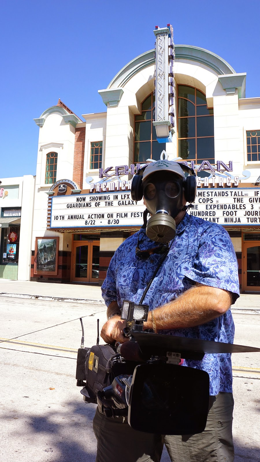 Henry Goren, director and director of photography of the film, High There, outside the theatre where the film premiered on 25 August 2014.